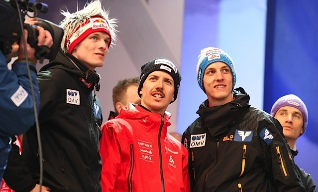 Thomas Morgenstern, Simon Ammann and Gregor Schlierenzauer during Adam's Bull's Eye on 26 March 2011 in Zakopane.